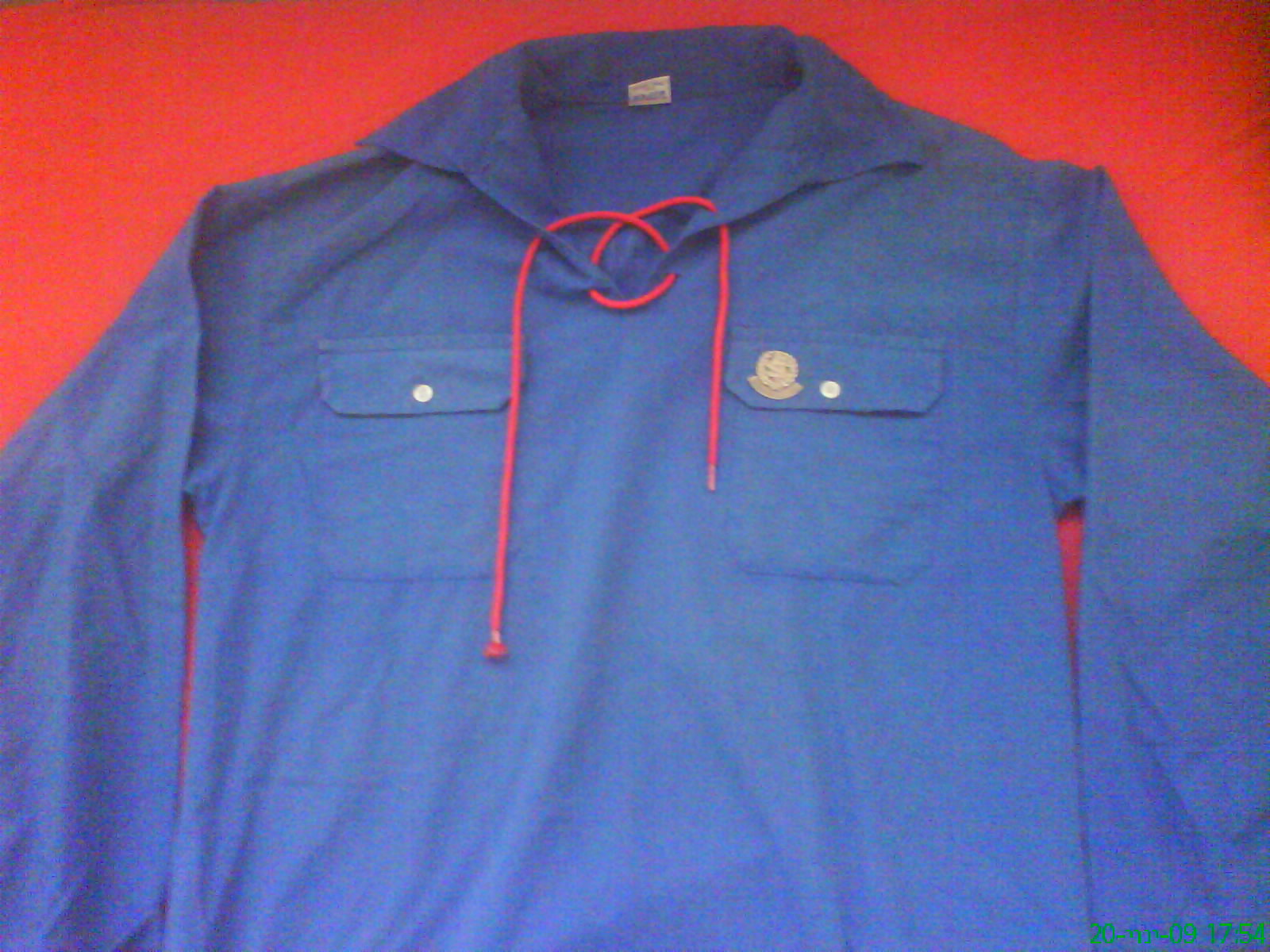 the uniform of the HaNoar HaOved VeHalomed. Blue shirt (Blue collar) wich symolise the working class, with red lacing wich simbolise Socialism.